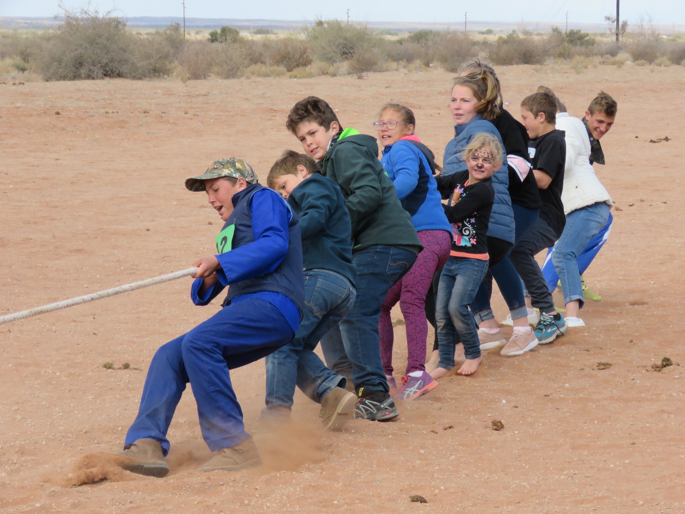 Kids playing tug of war during a traditional Afrikaner boeresport day in Namibia